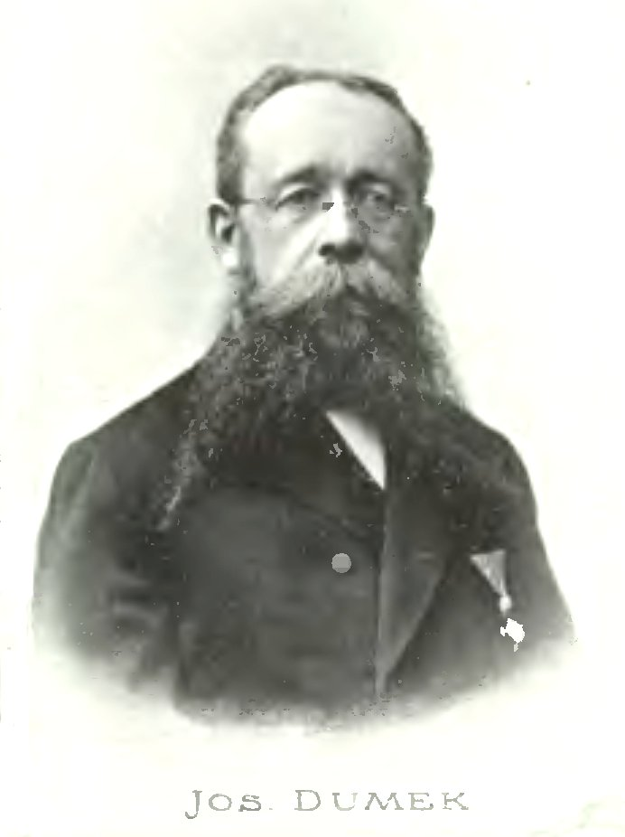 Portrait of Josef Dumek (1844-1903), Czech expert on agriculture, active as a teacher and a writer.